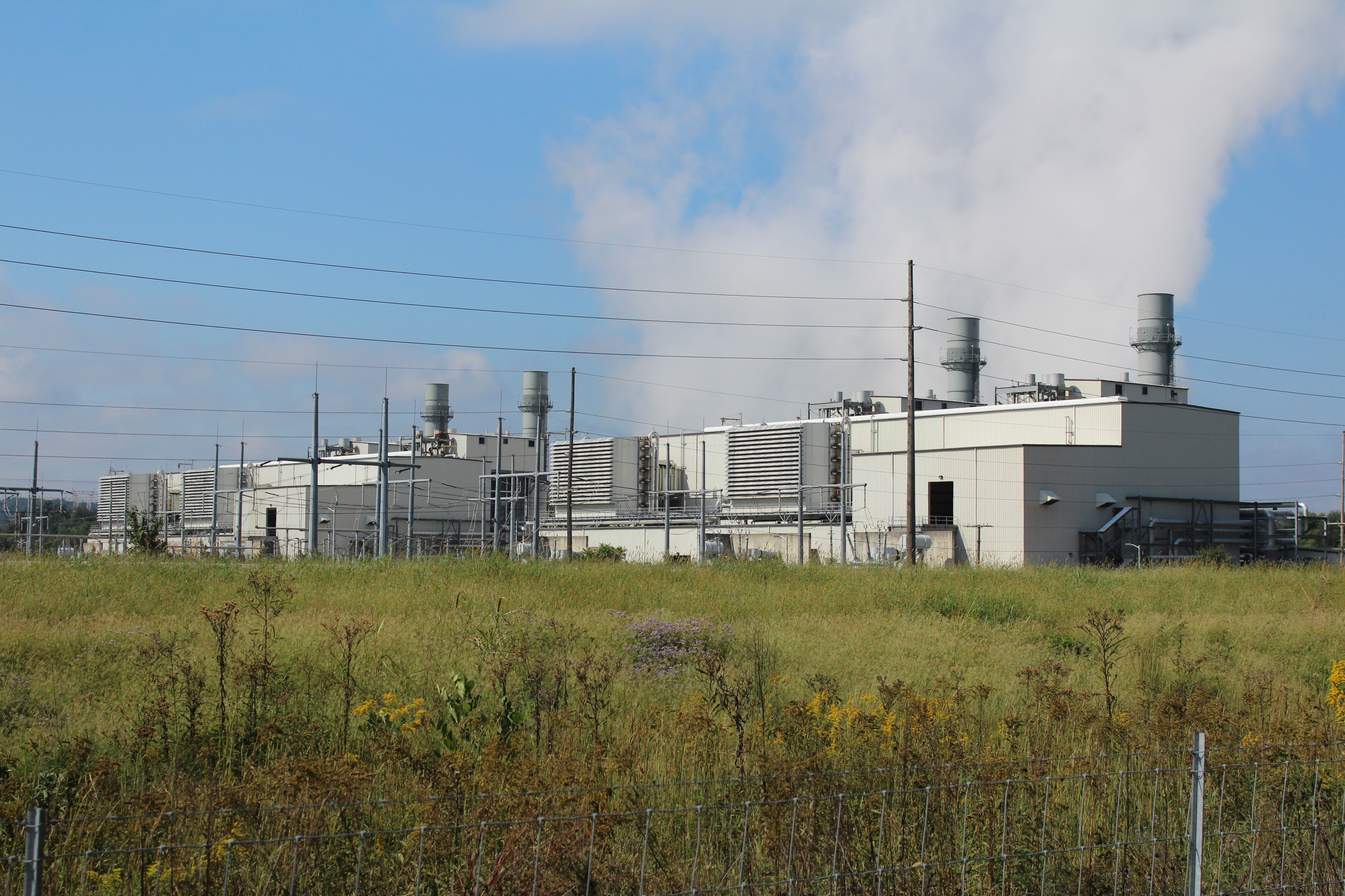 Hanging Rock Energy Facility in Hanging Rock, Ohio, September 2018.